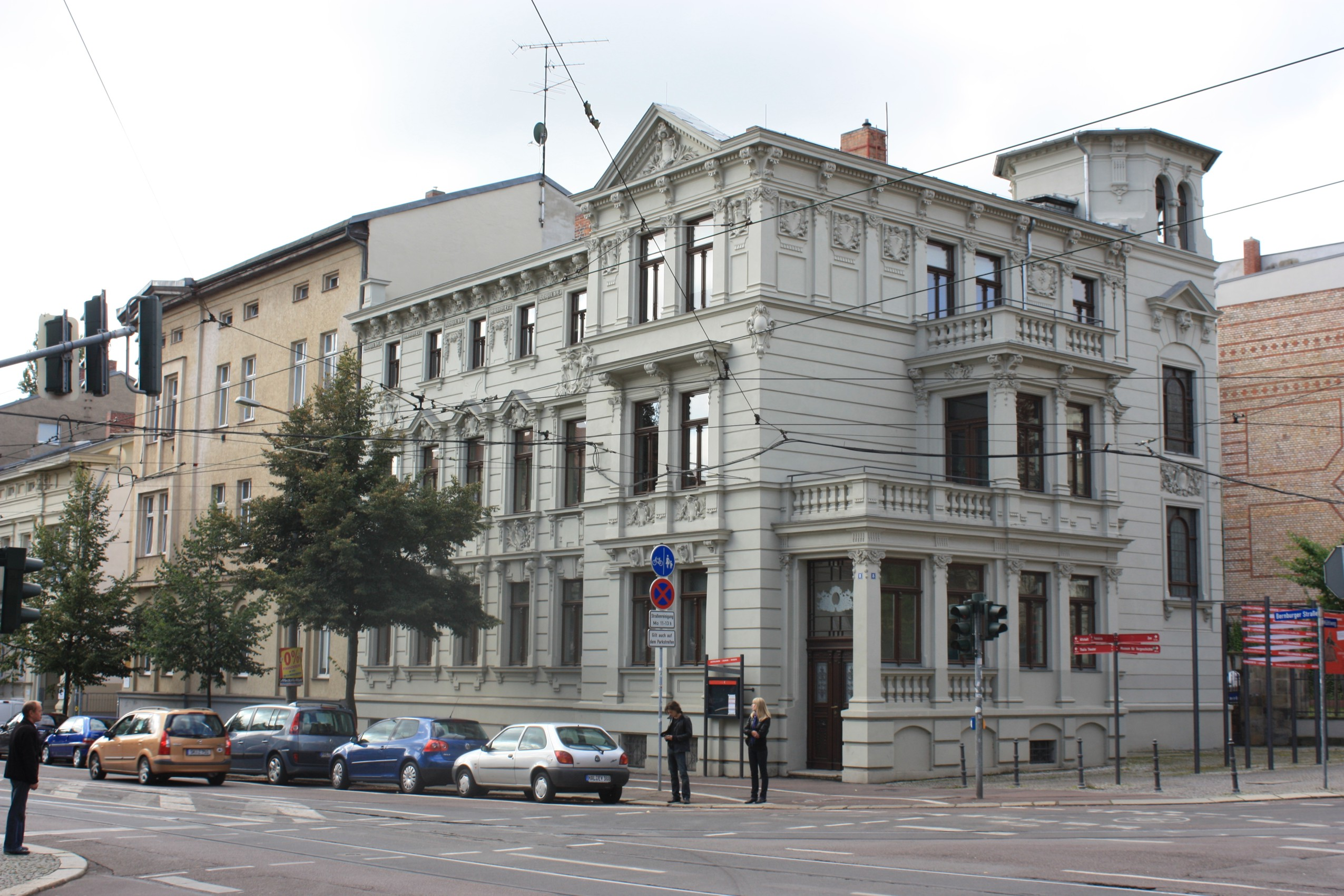 Halle, house 8 Bernburger Straße